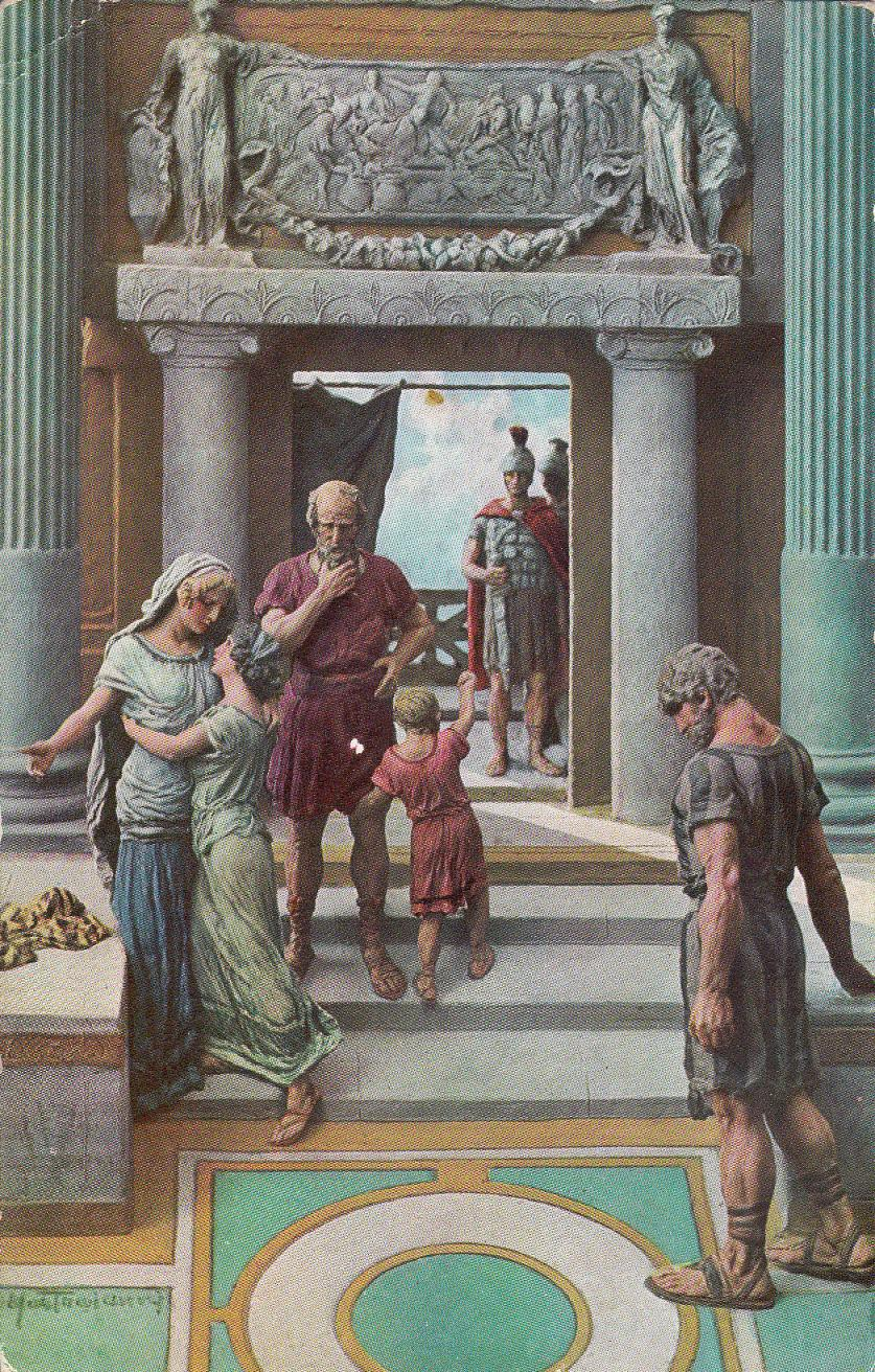 Scene of the historical novel by Henryk Sienkiewicz ("Quo Vadis"), entitled "Ligia leaves Aulus' house". Illustration by Domenico Mastroianni. Postcard from 1913. Publisher: A.N. Paris (Armand Noyer Studio).